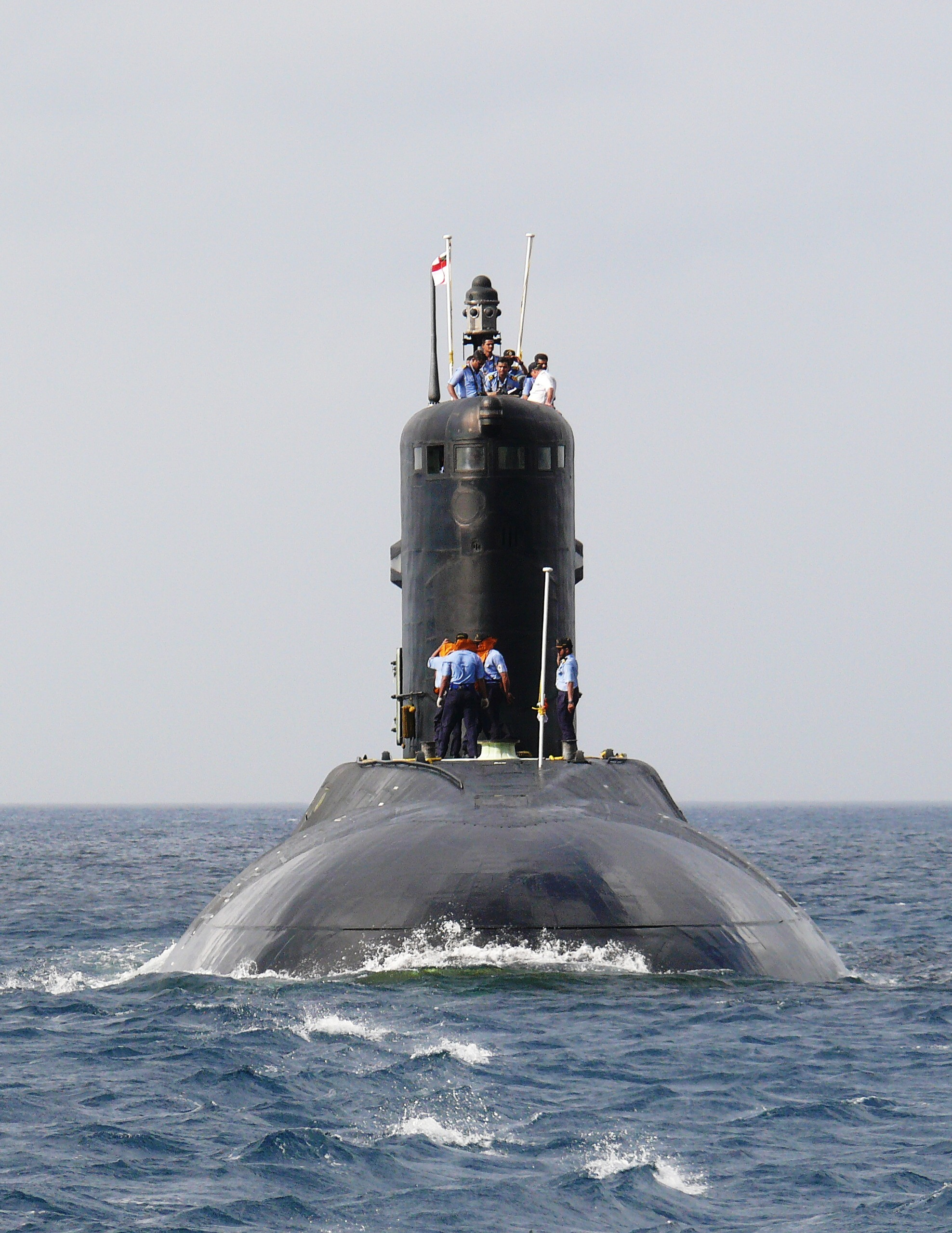 S-62 Sindhuvijay